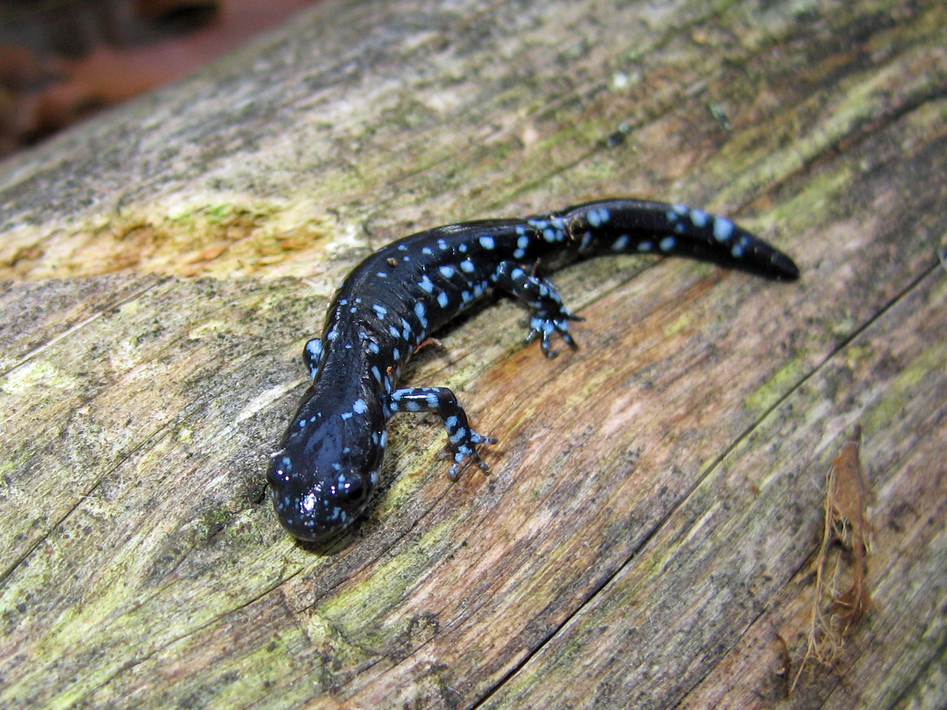 Ambystoma laterale (blue-spotted salamander)